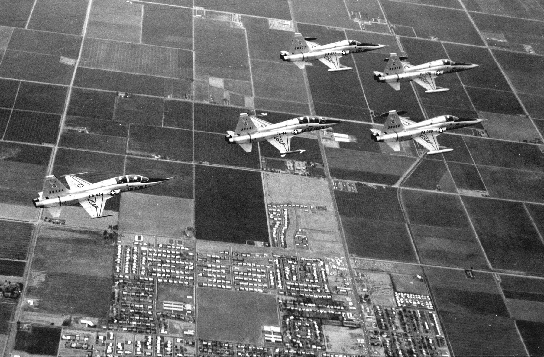 A formation of three Northrop F-5A-15-NO Freedom Fighters (s/n 63-8376, 63-8377, 63-8380) and two F-5B-5-NO (s/n 63-8441, 63-8444) of the U.S. Air Force in flight, circa in 1964-1965.